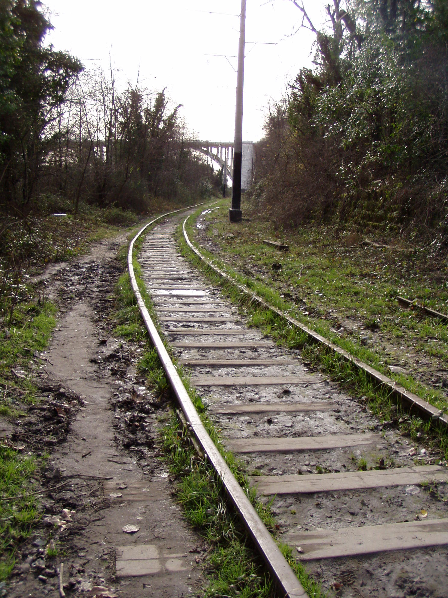 Matsesta former railway, Sochi, Russia